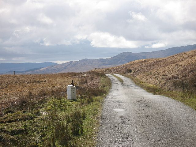 Milestone, A846 One of a series of recently painted milestones along the Jura Road.